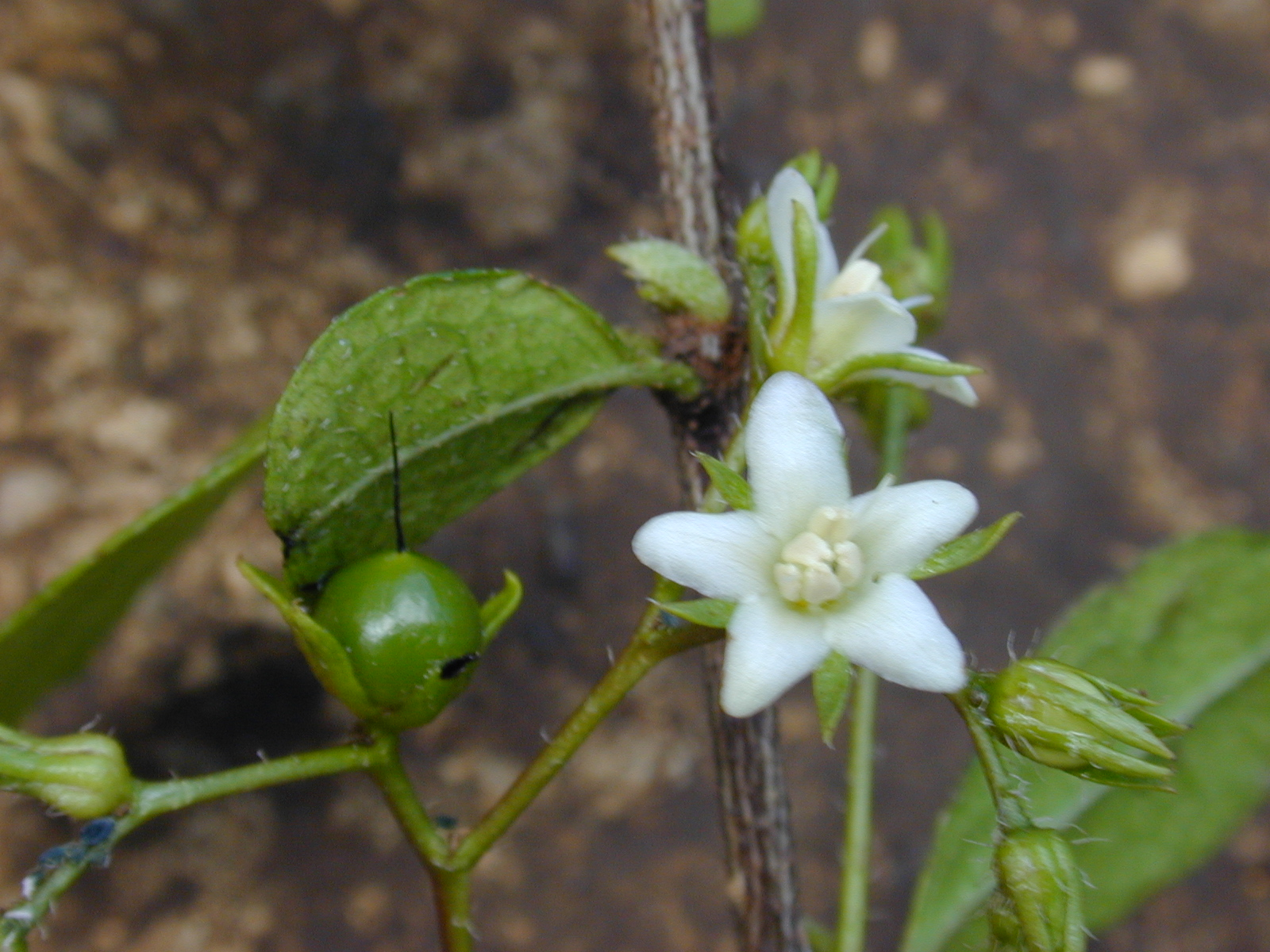 Carmona retusa (flower and fruit). Location: Maui, Haiku